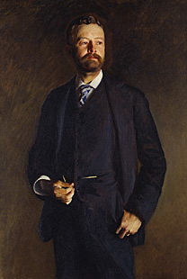 "Henry Cabot Lodge (1850-1924) Statesman